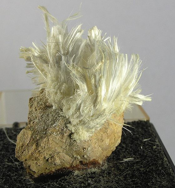 Halotrichite Locality: Golden Queen Mine, Soledad Mt., Golden Queen District, Kern County, California, USA (Locality at ) Size: 5.2 x 4.2 x 3.3 cm. Most likely collected in the late 1960s or early 70s, this is a gorgeous specimen of acicular (hair-like) crystals of halotrichite - here represented in a tuft perfectly set atop matrix! Halotrichite (a hydrated iron aluminum sulfate, usually a product of pyrite oxidation).